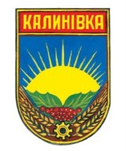 Coat of Arms of Kalinovka (Vinitsa region, Ukraine)